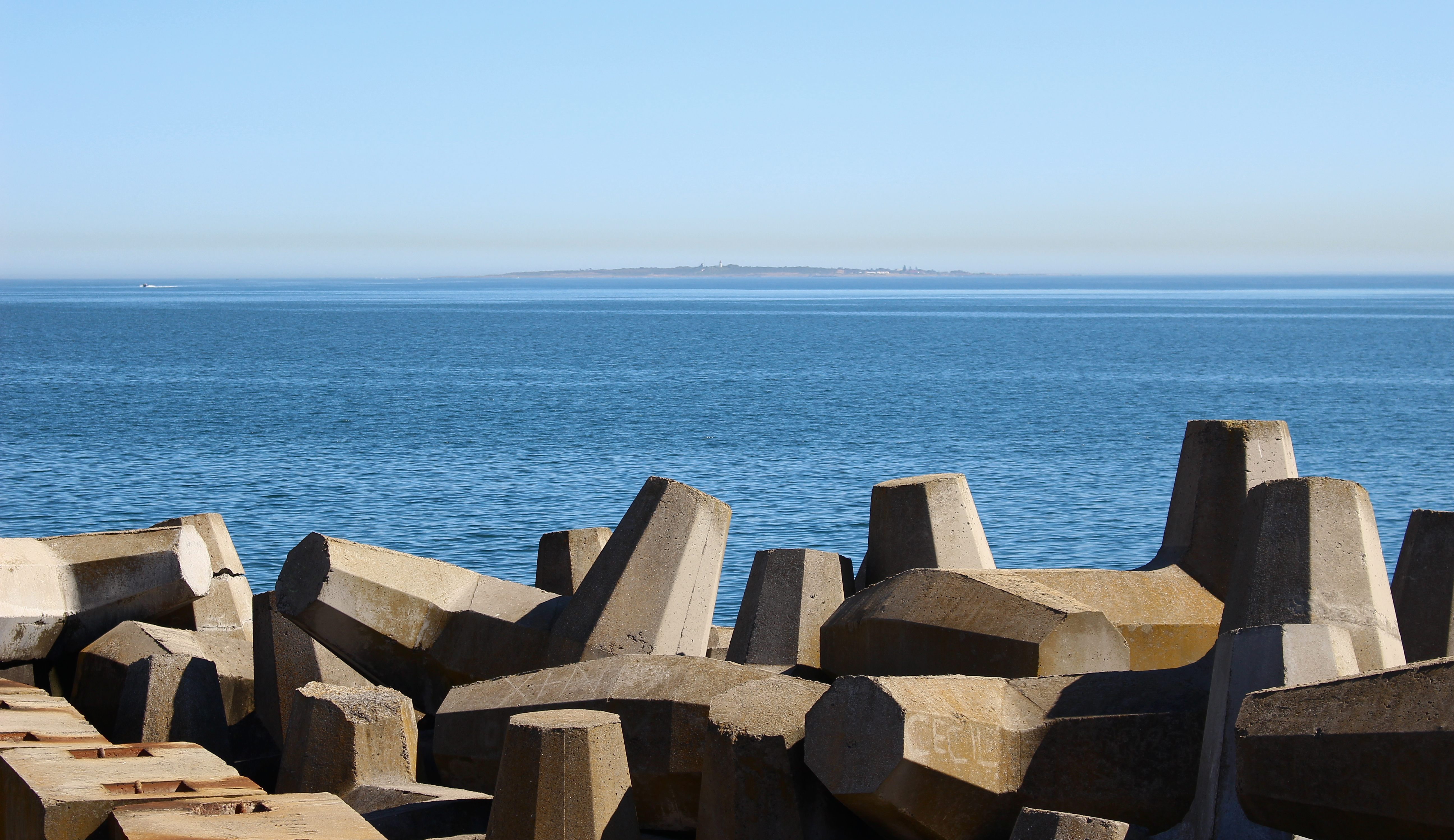 This media shows a South African Protected Site with SAHRA file reference 9/2/018/0004.